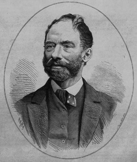 Portrait of Ede Zsedényi